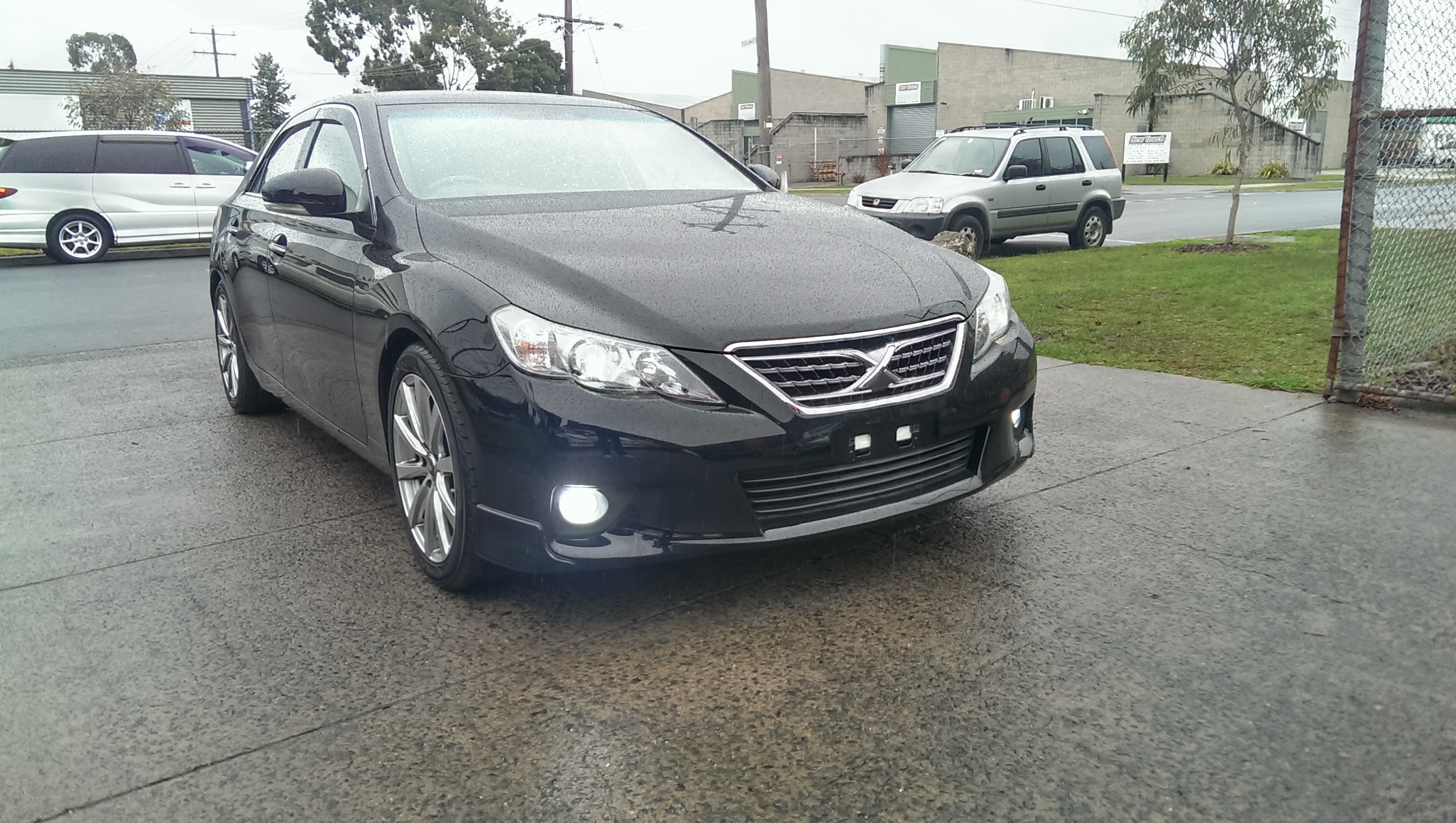 Second generation (non facelift) 350S Mark X in Australia